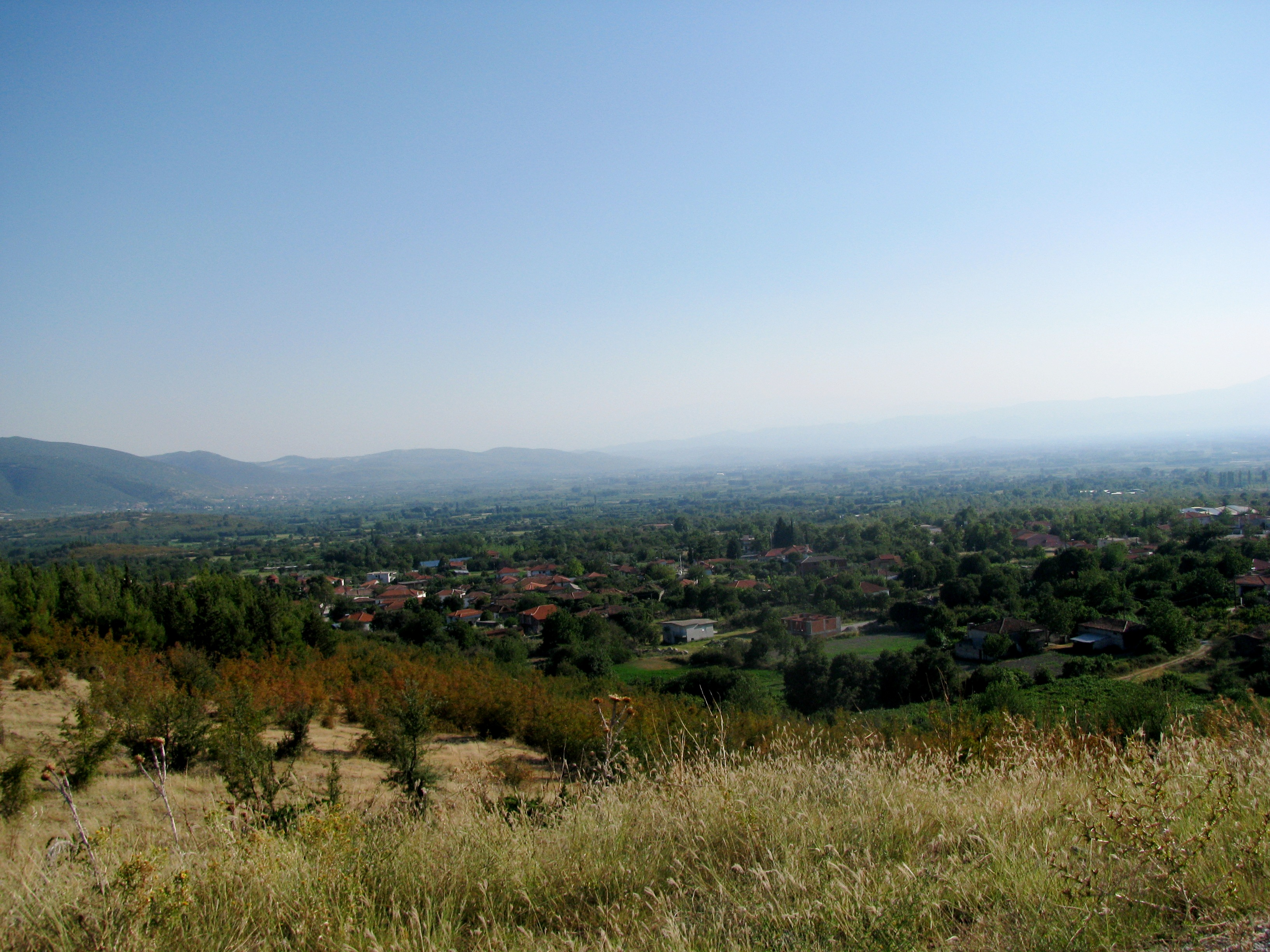 Village of Fushtani or Fustani, Pella prefecture, Greece